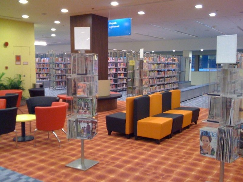 Choa Chu Kang Community Library, Singapore.